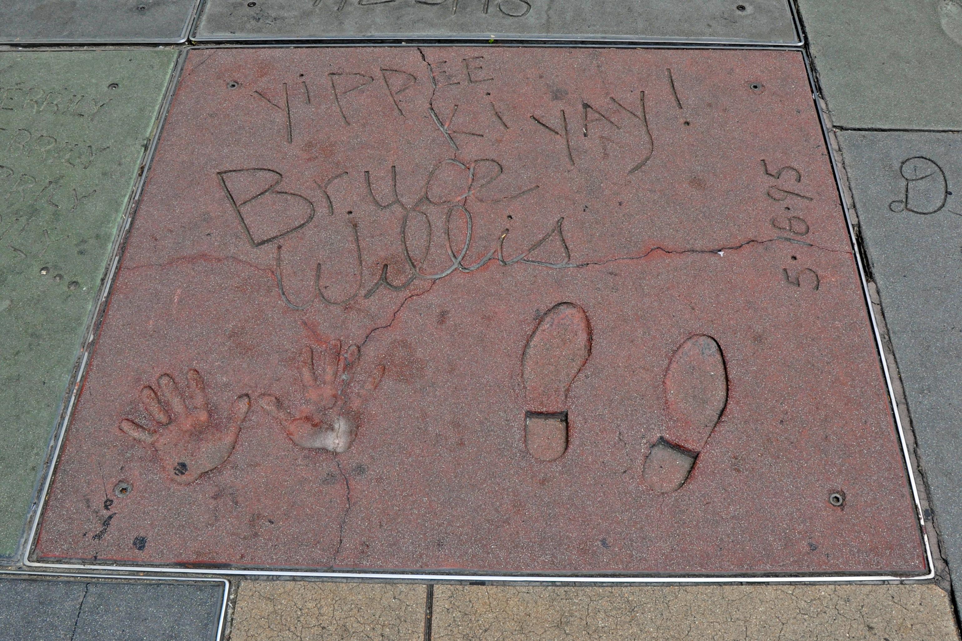 Impronte di Bruce Willis al TCL Chinese Theatre a Los Angeles, agosto 2011